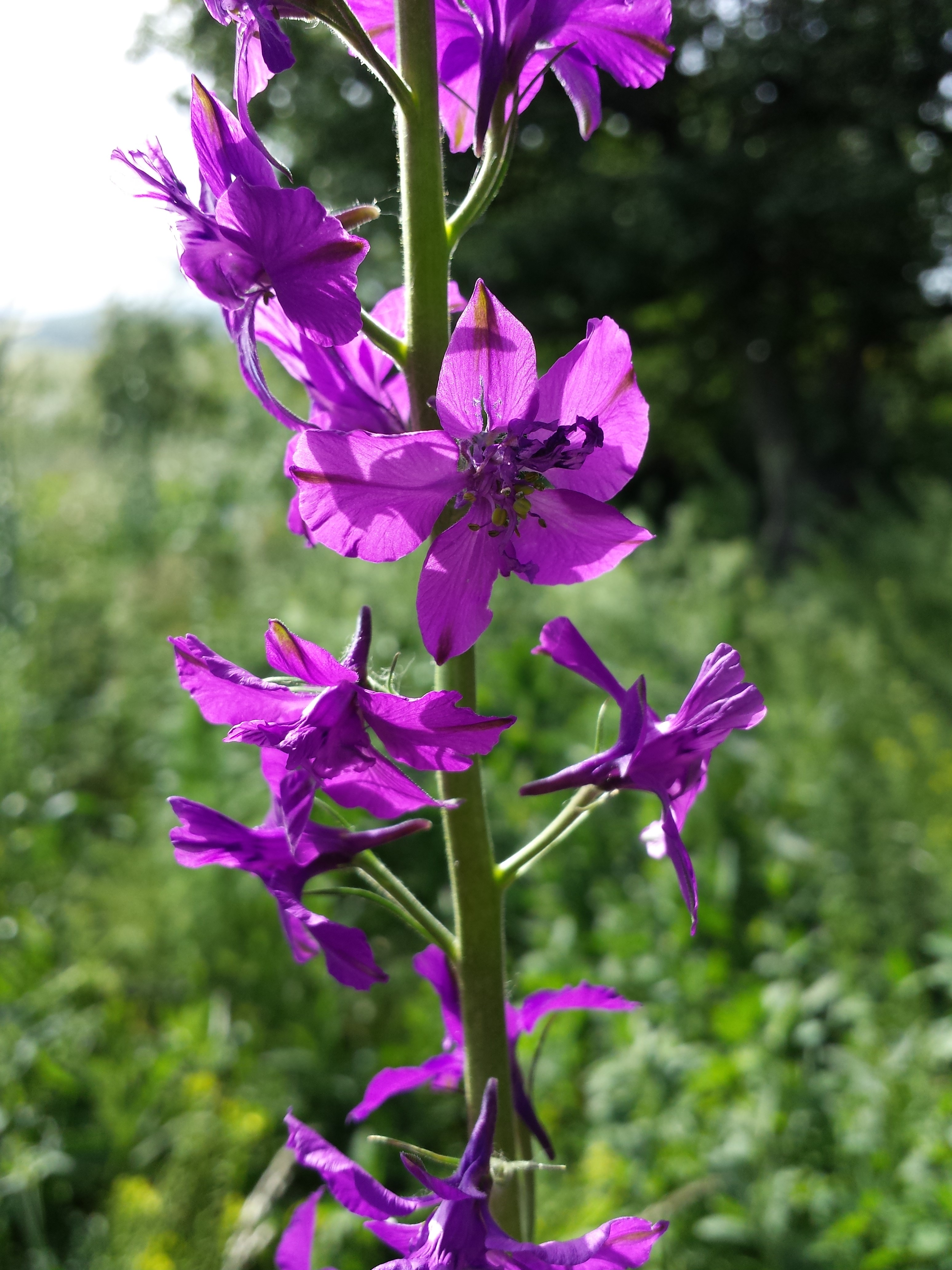 Florescence Taxon: Consolida hispanica (sensu Fischer et al. EfÖLS 2008 ISBN 978-3-85474-187-9) Location: natural monument "Alte Schanzen", object XII, Vienna-Floridsdorf - ca. 225 m a.s.l. Habitat: fallow land This media shows the natural monument in Vienna with the ID 695.